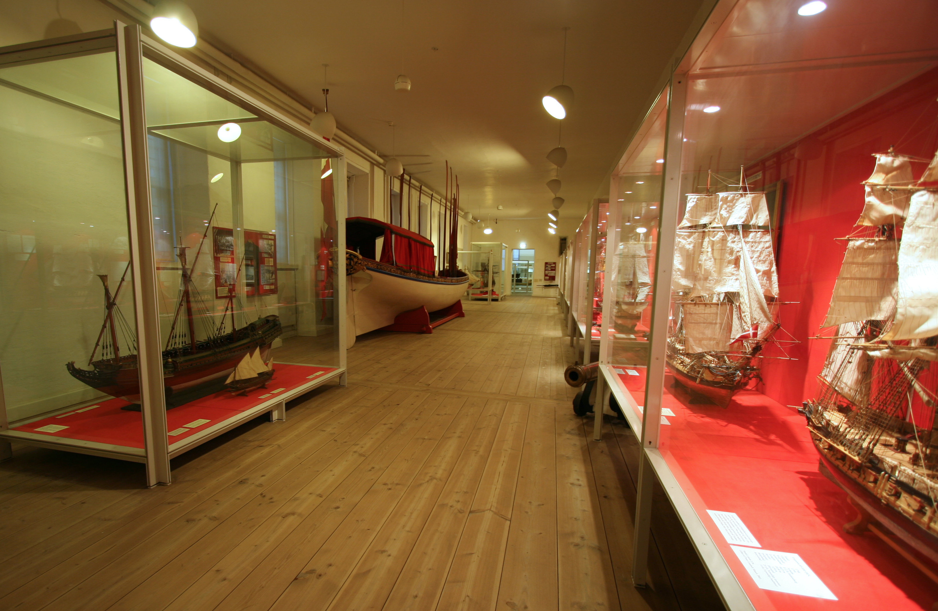 Orlogsmuseet, The Royal Danish Naval Museum in Copenhagen. Chalup exhibition. Chalupsalen.